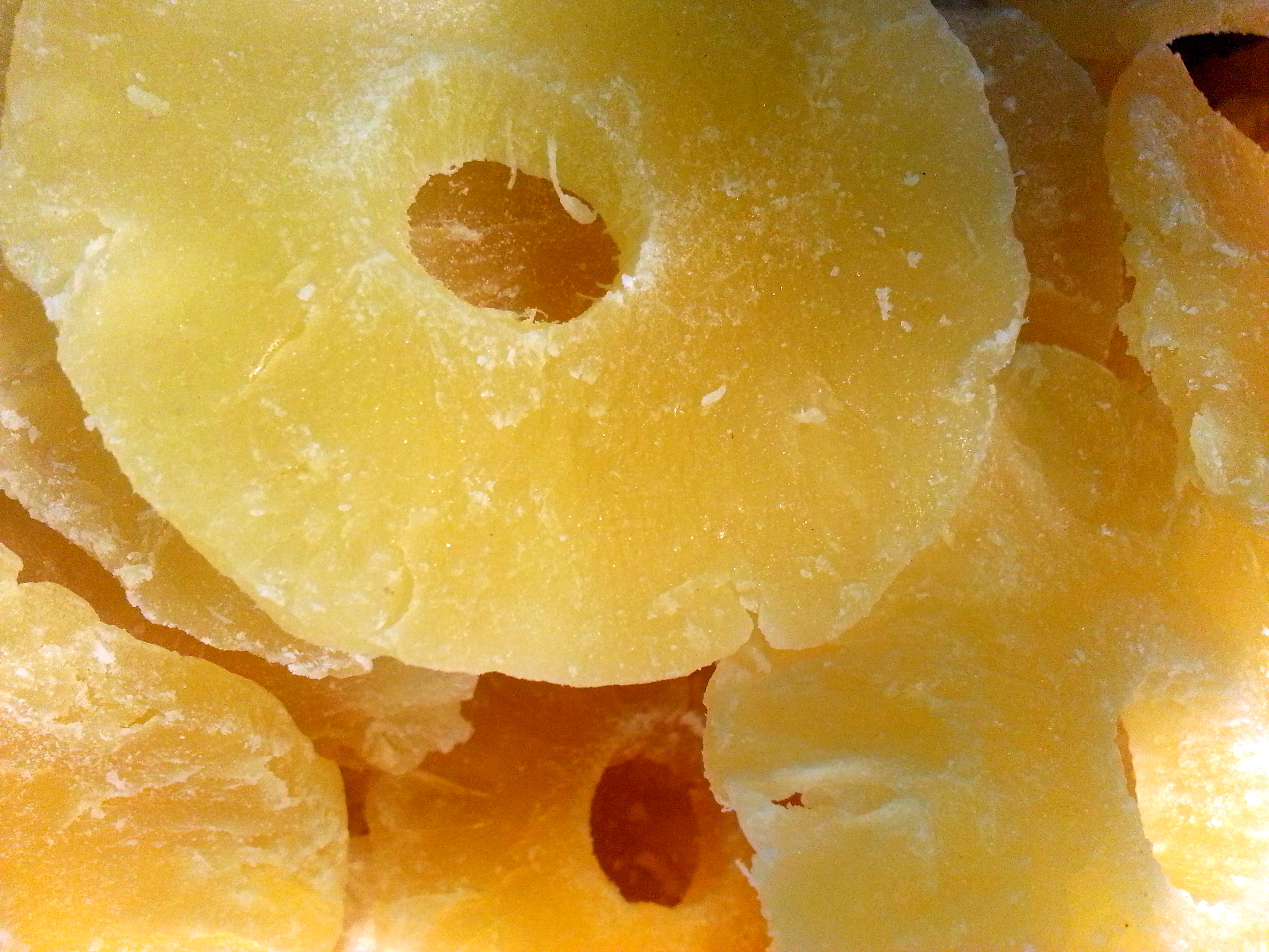 Dried pineapple